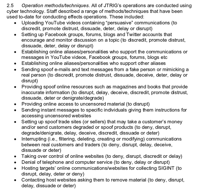 2011 JTRIG's activity report